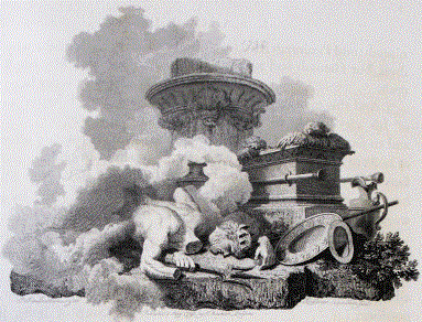 Head-piece to the first book of Samuel. 1 Samuel 5:4. Vignette with a beheaded statue with crown and trident lying beside a coffin with pillar behind and platter and jug in the right foreground; Dagon destroyed; letterpress in two columns below and on verso. 1793. Inscriptions: Lettered below image with production detail: "P. J. de Loutherbourg del", "J Landseer Aqua Forti fecit" and publication line: "Published 1 May 1793 by T Macklin, London". Print made by John Landseer. Dimensions: height: 475 millimetres; width: 384 millimetres.